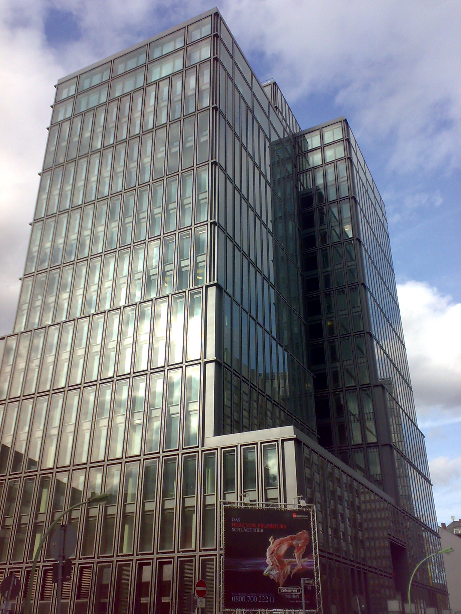 Skyscraper Romeo & Julia, Ulmenstraße 37–39 in Frankfurt am Main